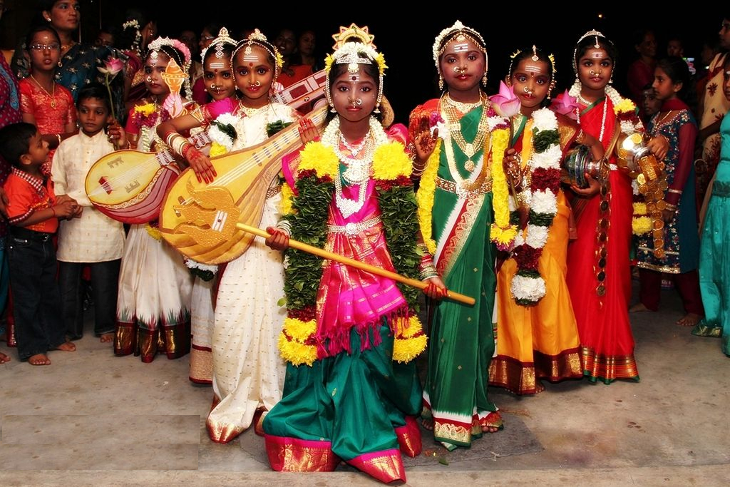 This photos have been taken in 9th day of Navarathiri, where all the kids have been dressed up as Amman's Avathar "Saraswathy, Thurgai and Letchumy."